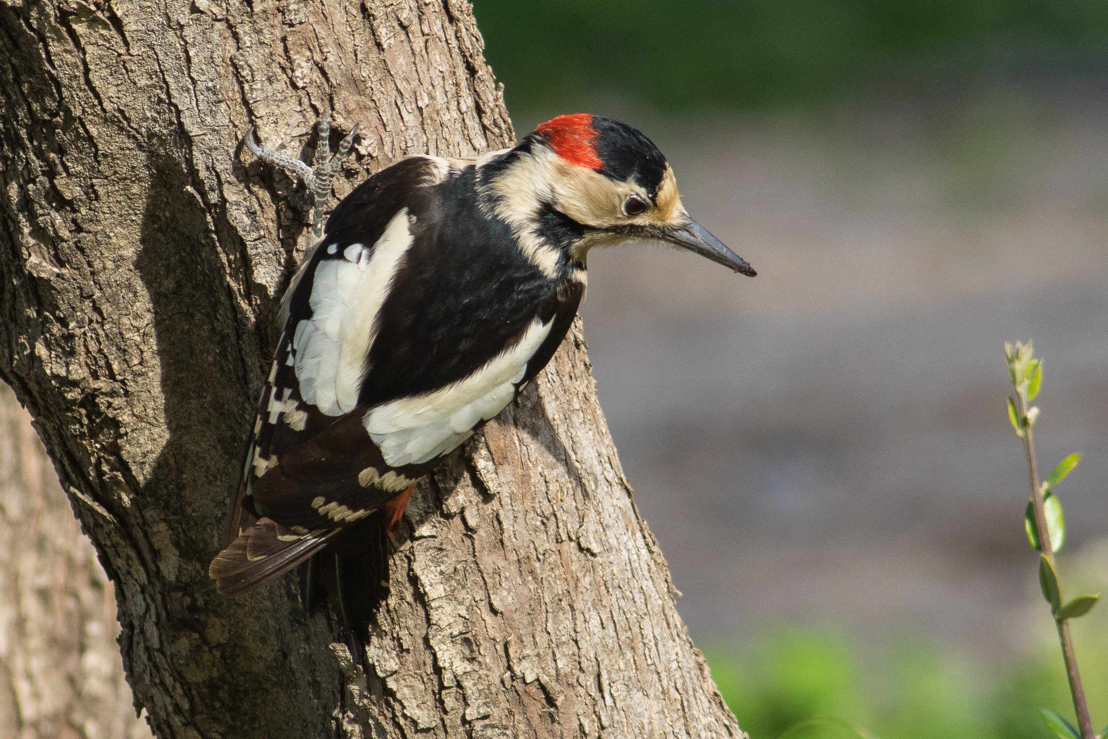 Dendrocopos syriacus, Ashkelon National Park, Israel.